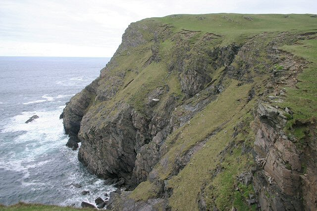 Faraid Head Looking north-eastwards from Poll a'Gheodha Bhain.